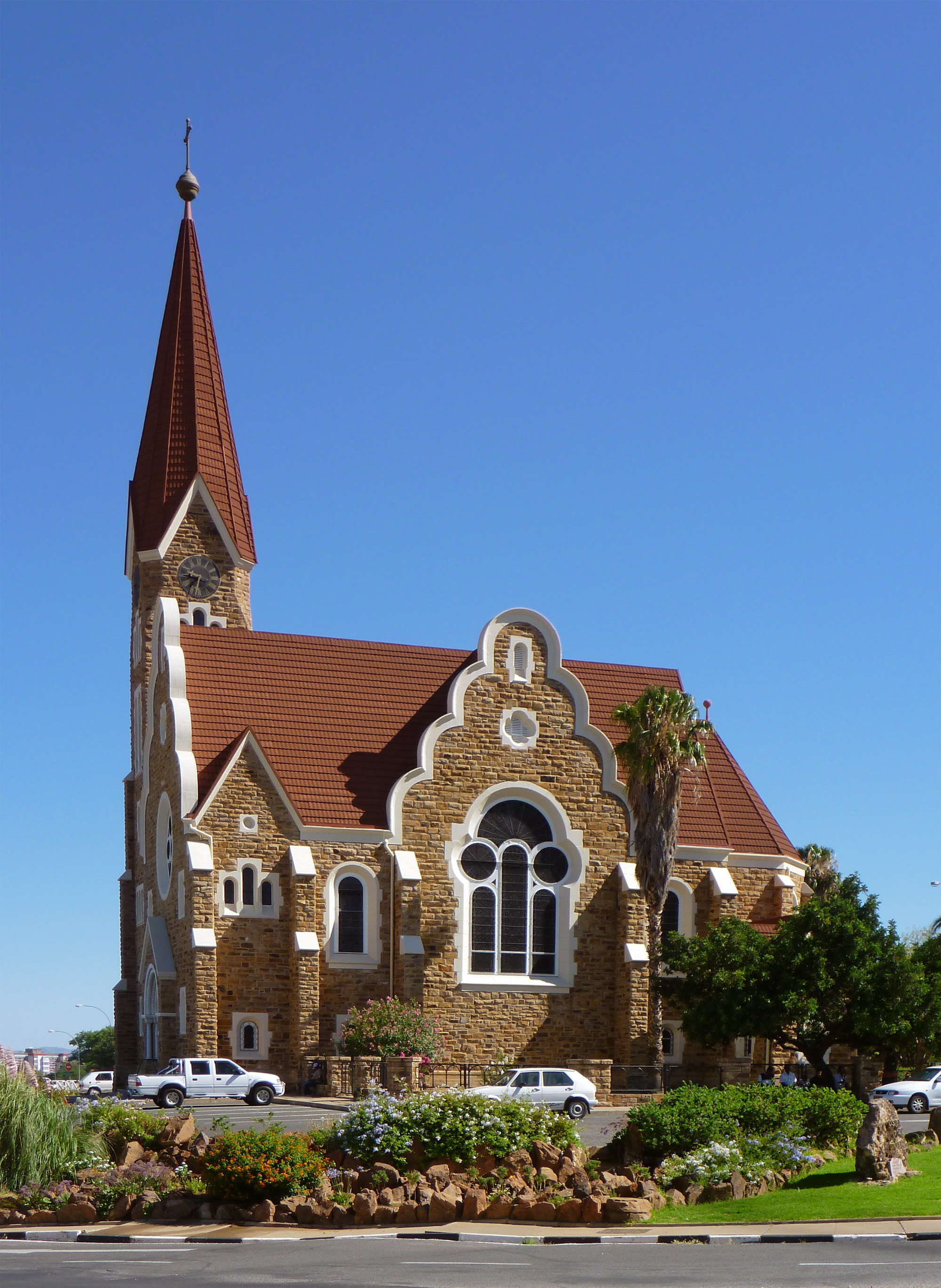 Christuskirche, Windhoek, a noted landmark in Windhoek. This Lutheran church that looks over the city centre was dedicated in 1910.